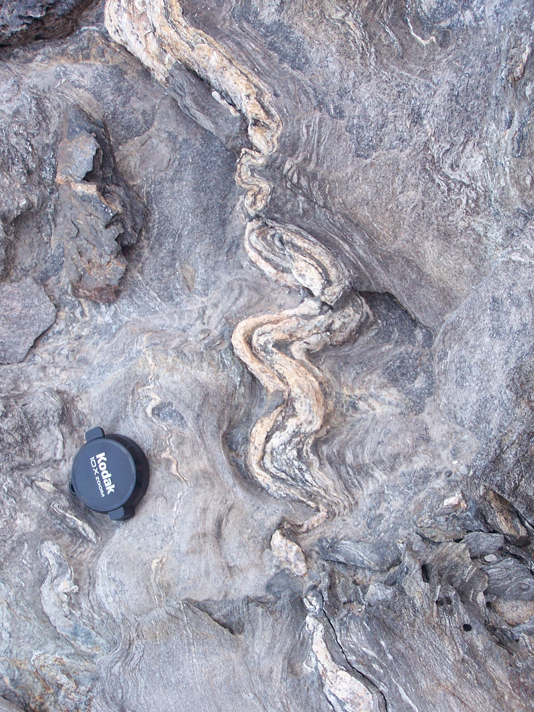 Folds formed during the Hercynian orogeny in rocks at Cap de Creus in Catalonia, Spain. (Details based on description of this photograph in Dutch Wikipedia at